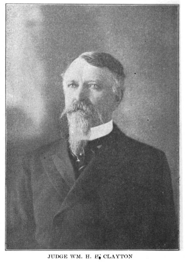 Image of W.H.H. Clayton from S.W. Harman's book, Hell On the Border, published in 1898 by The Phoenix Publishing Company, Fort Smith, Arkansas